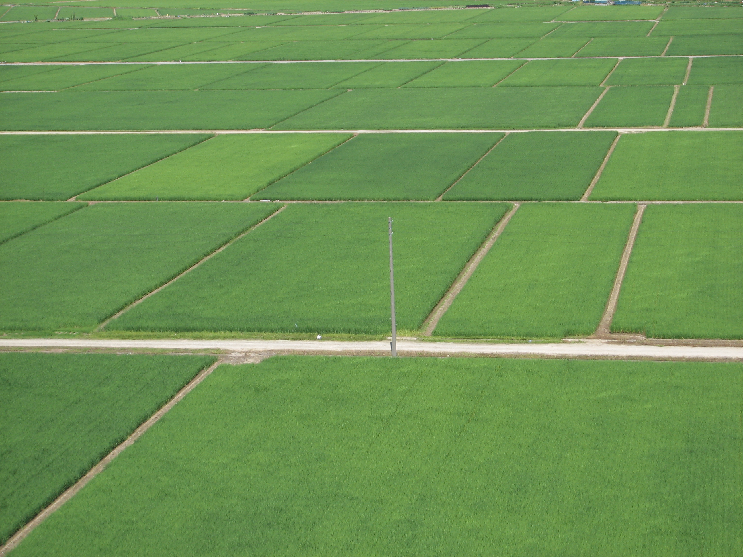 Paddy fields in Niigata Prefecture, Japan.